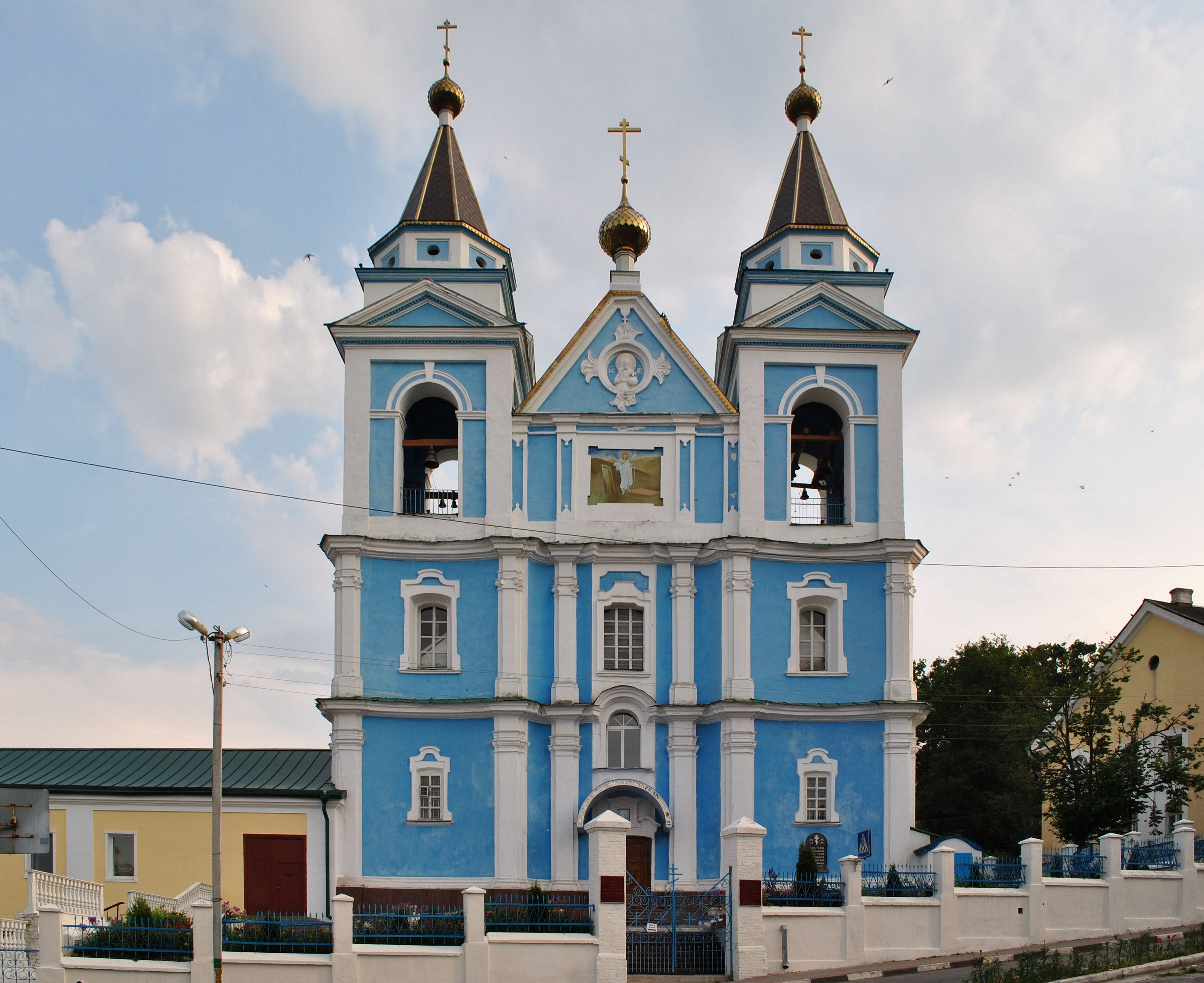 Church of Saint Michael Archangel in Mazyr (Belarus).